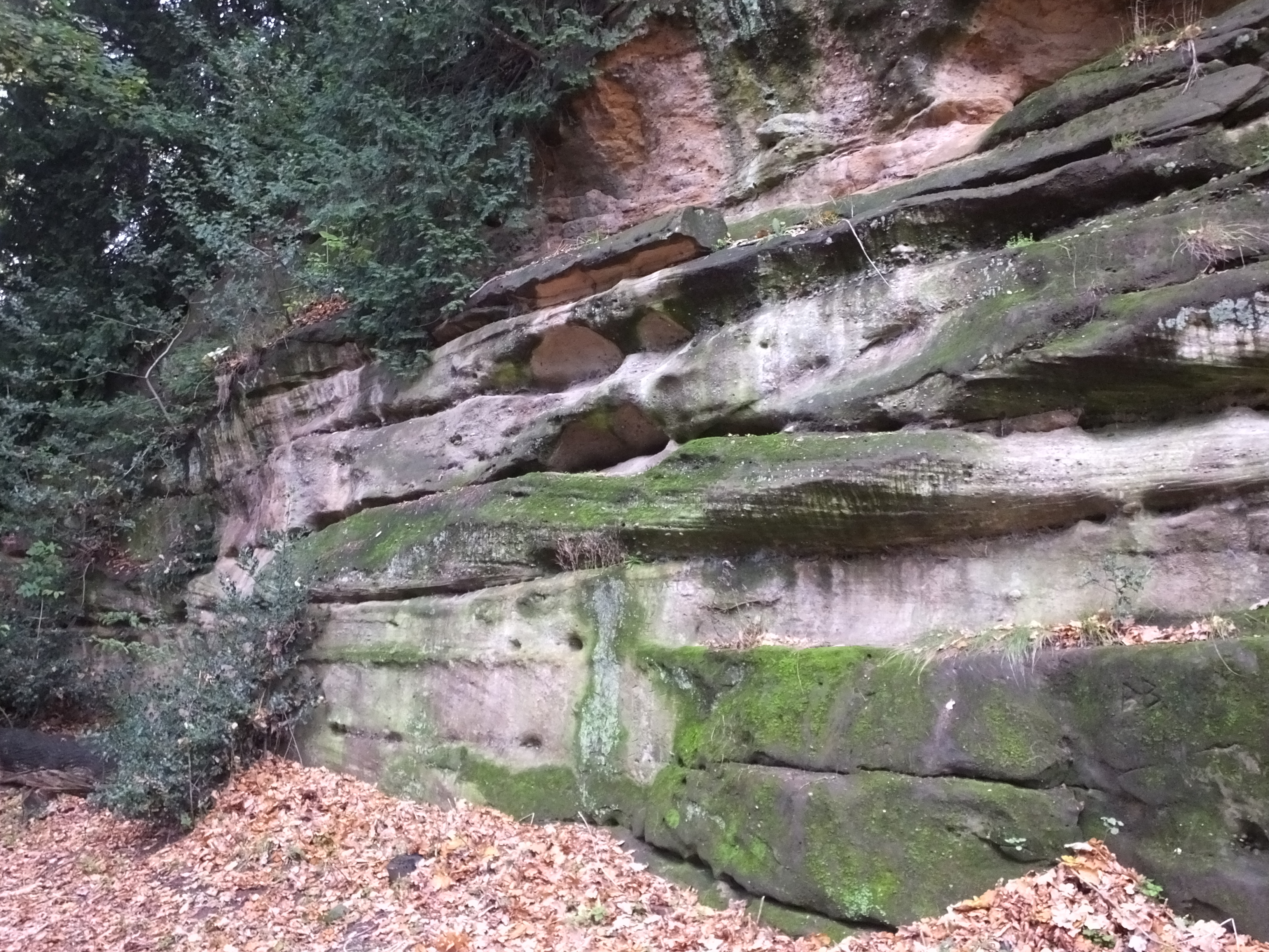 Highfields Park, Nottingham is Grade II listed Park providing 121 acres (49 ha) of public space, in the west of Nottingham, England. It is owned and maintained by Nottingham City Council. It located alongside University Boulevard, adjoining the University of Nottingham's University Park campus